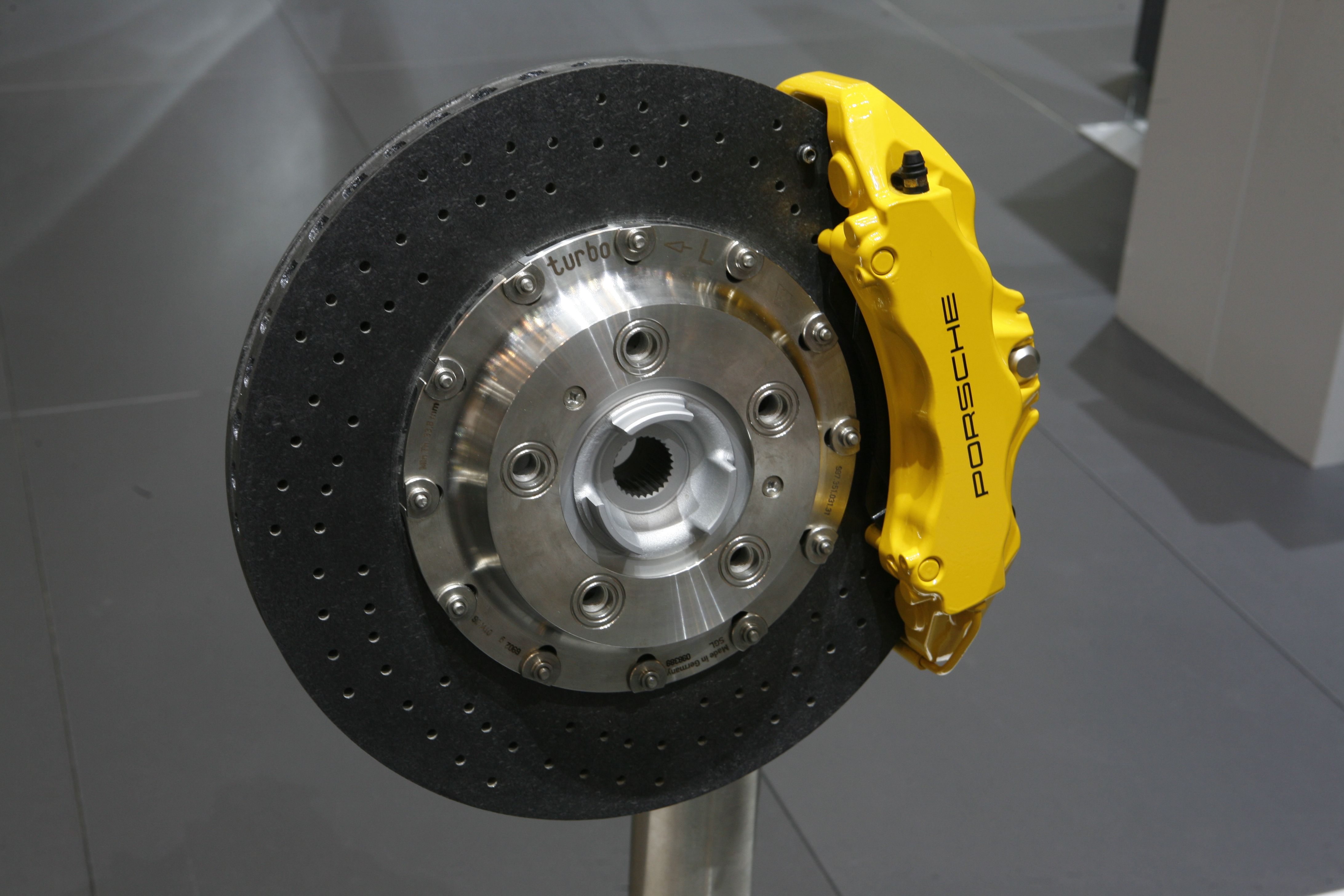 Porsche Ceramic Composite Break (PCCB)